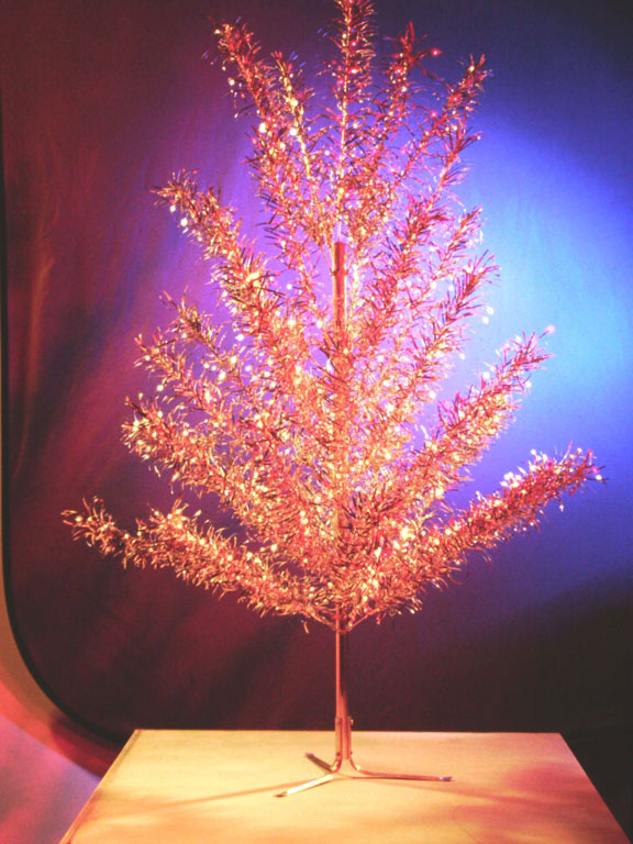 An aluminum Christmas tree in the permanent collection of The Children’s Museum of Indianapolis